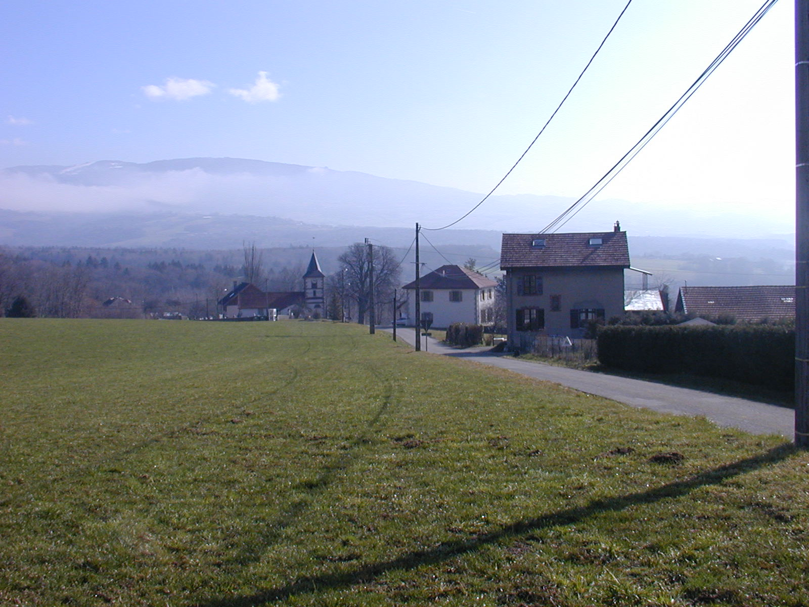 Village of Chavannaz, Haute-Savoie, France.